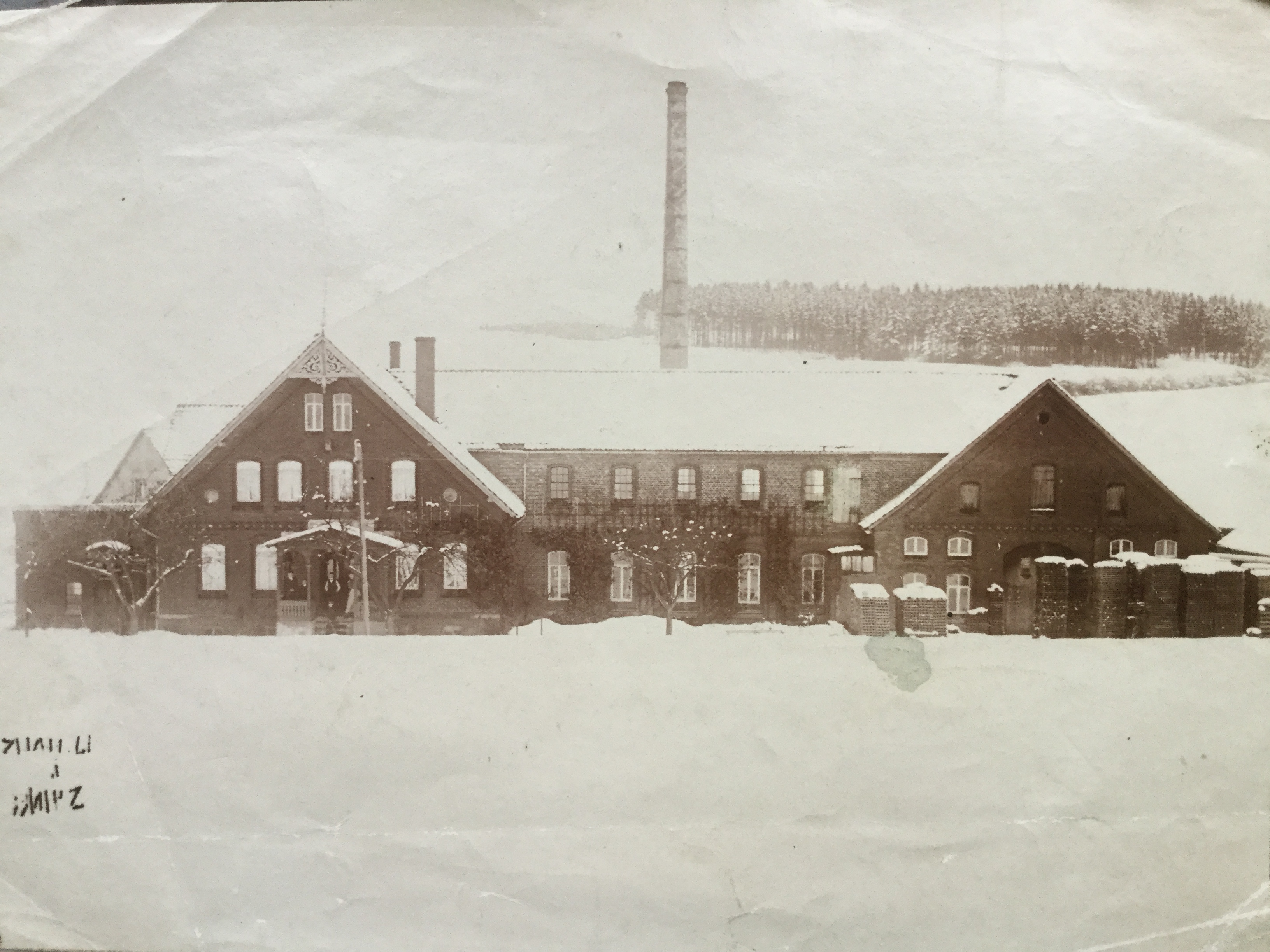 Dampfsägerei Benze ca. 1900